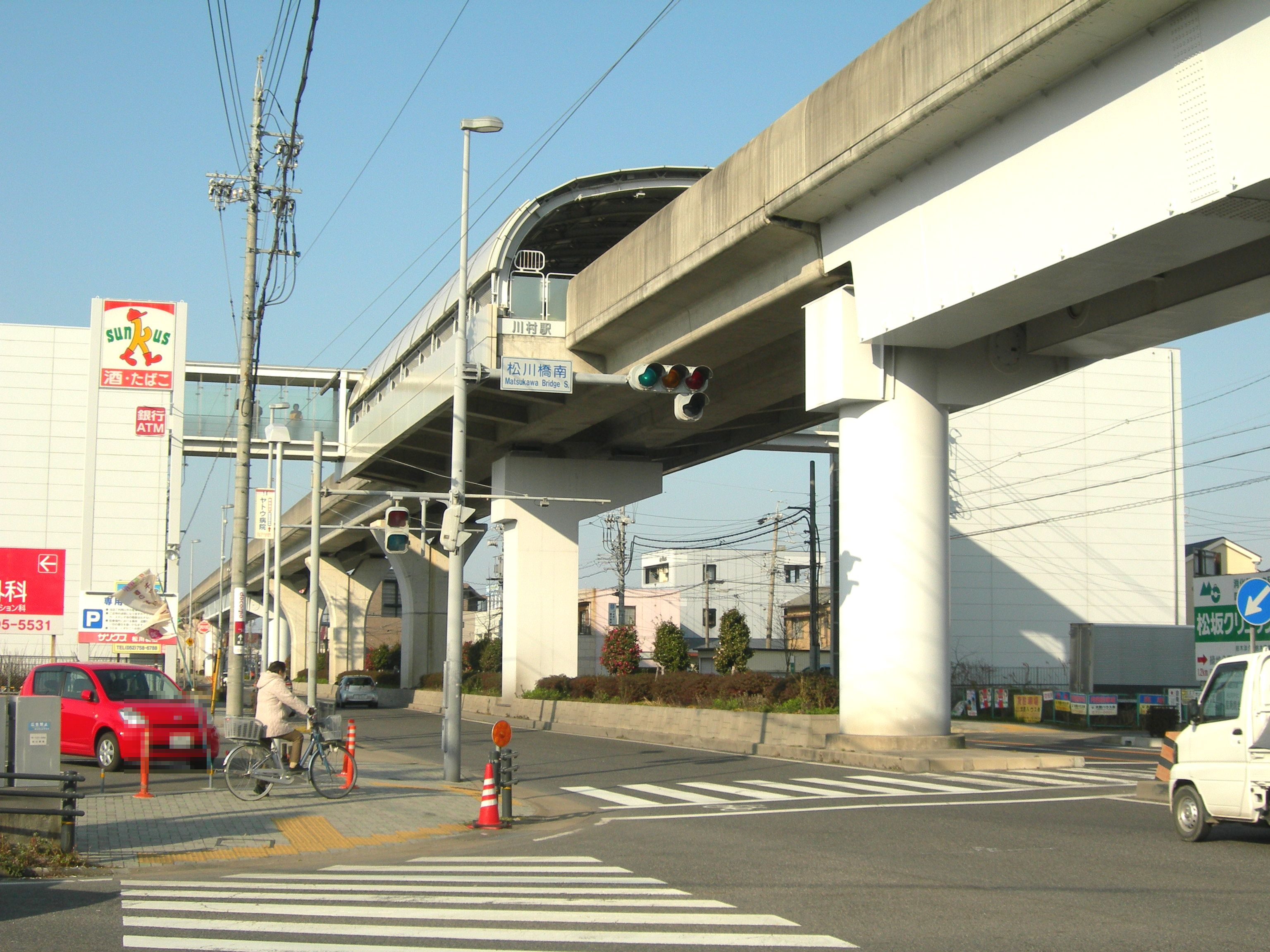 Nagoya Guideway Bus Kawamura Station